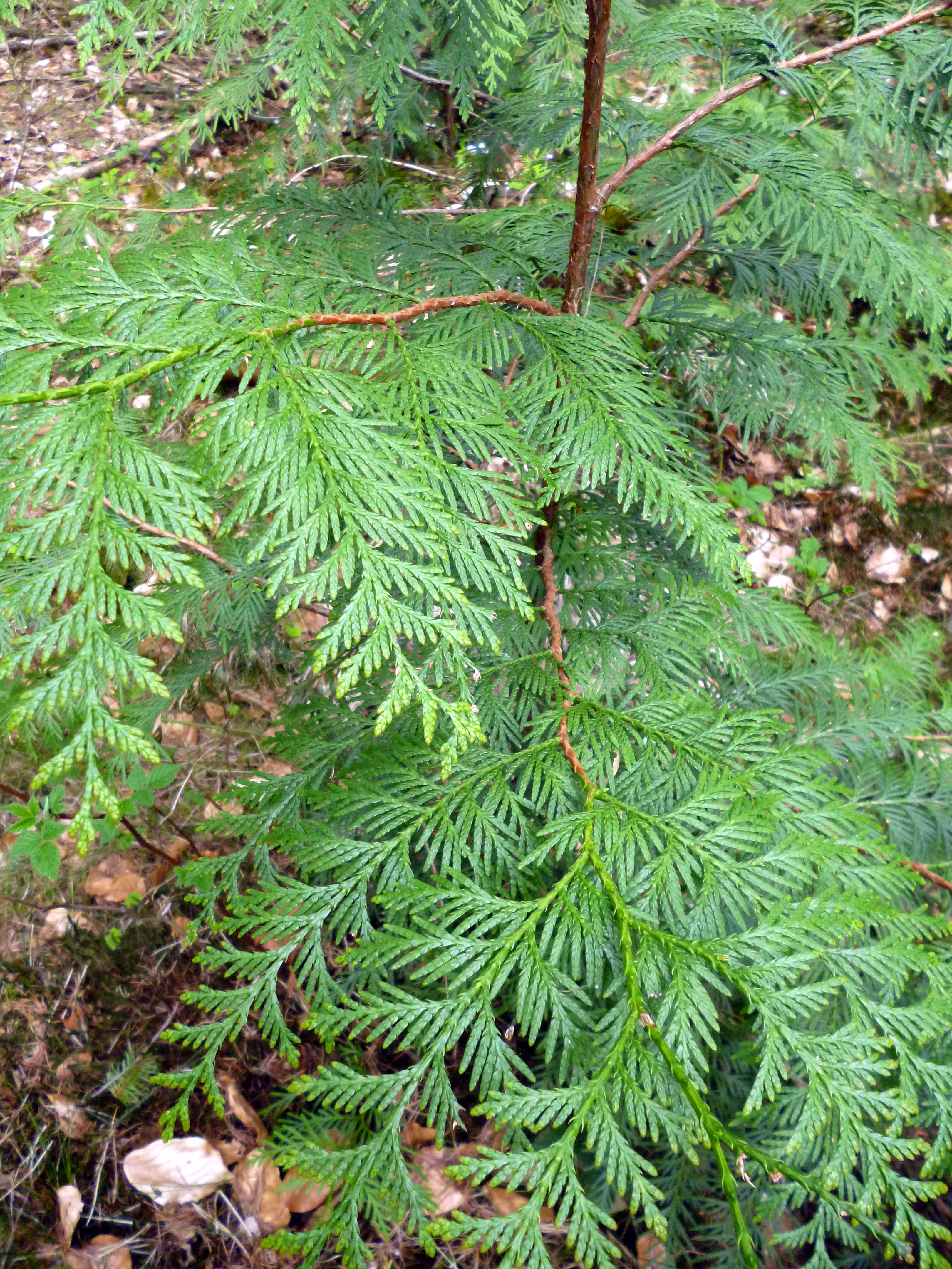 Leaves of a young Thuja plicata